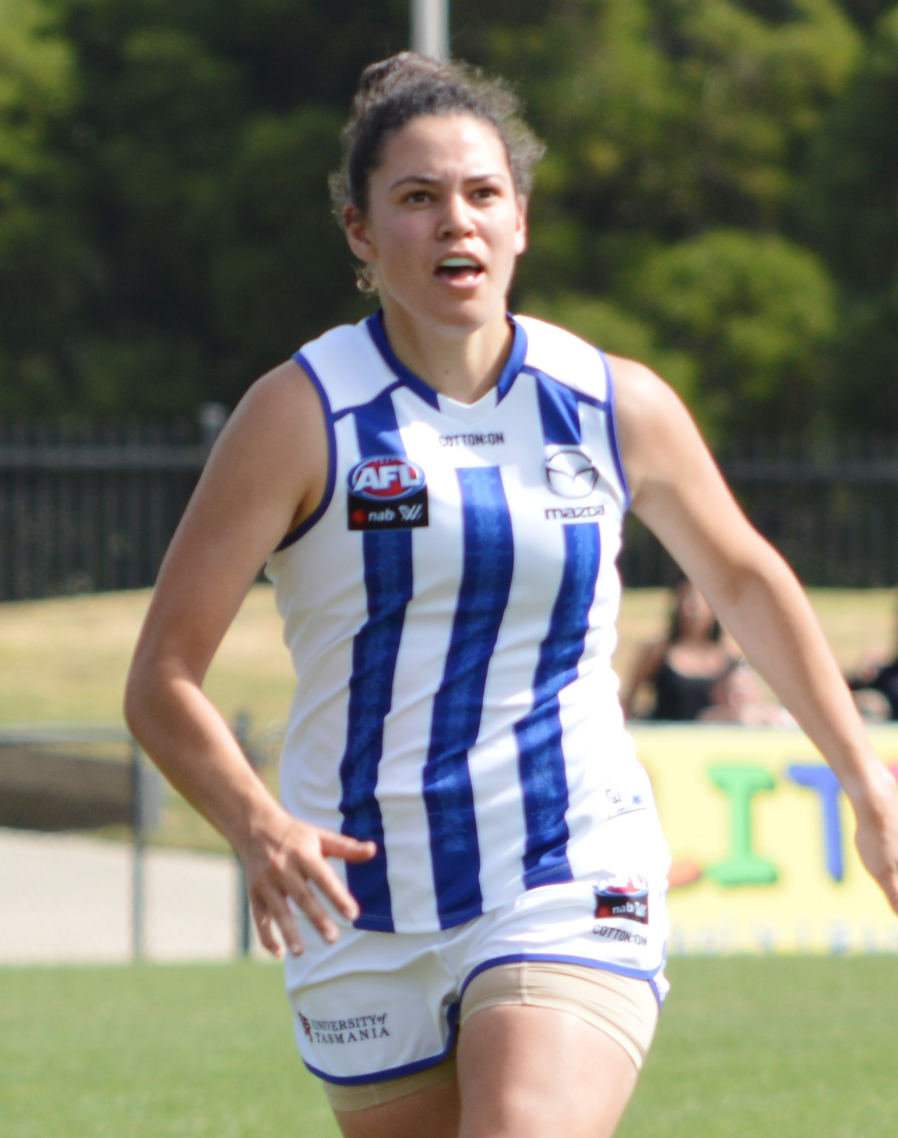 Danielle Hardiman with North Melbourne during an AFLW practice match against Melbourne at Casey Fields on 19 January 2019.